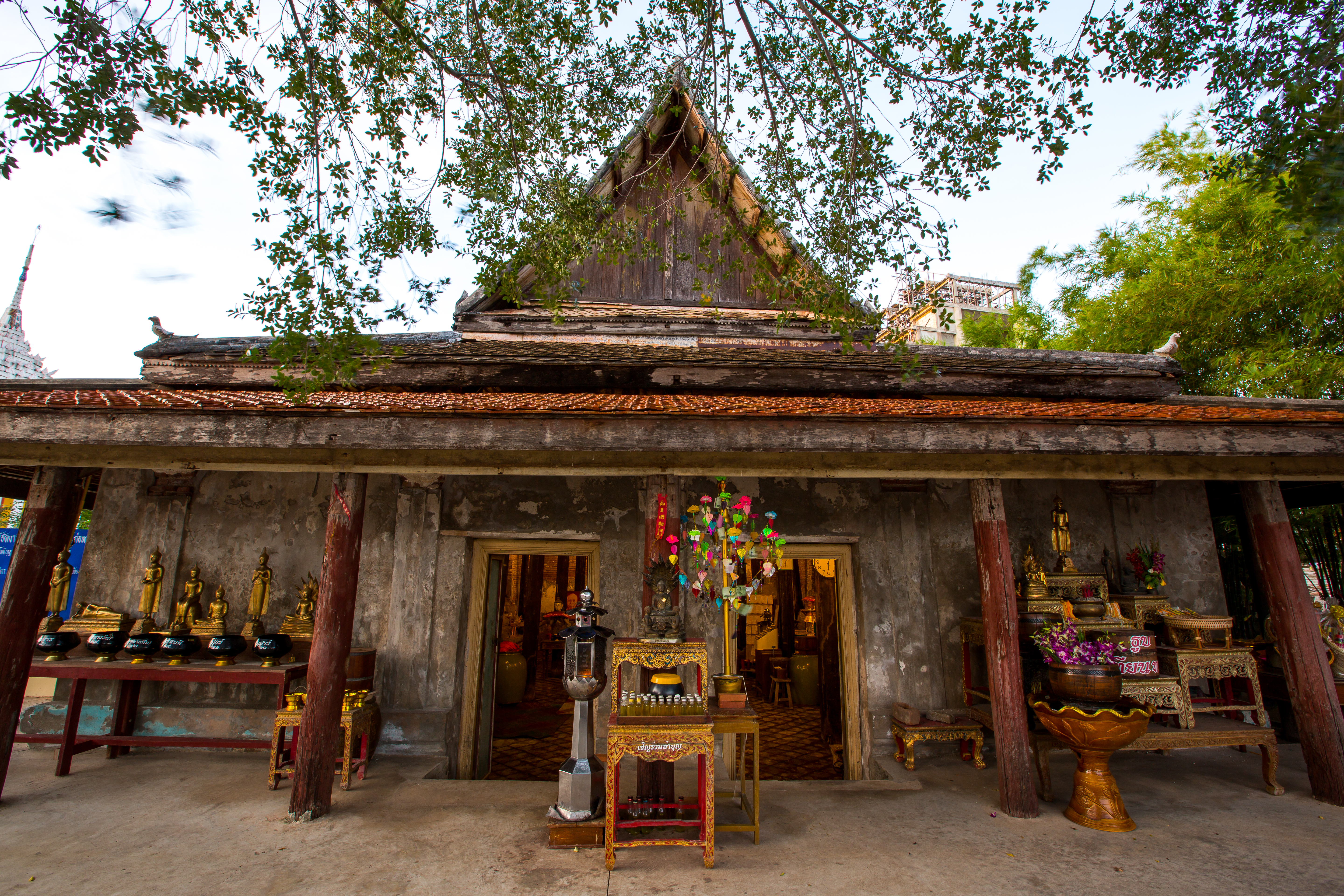 Wat Yai Ban Bo